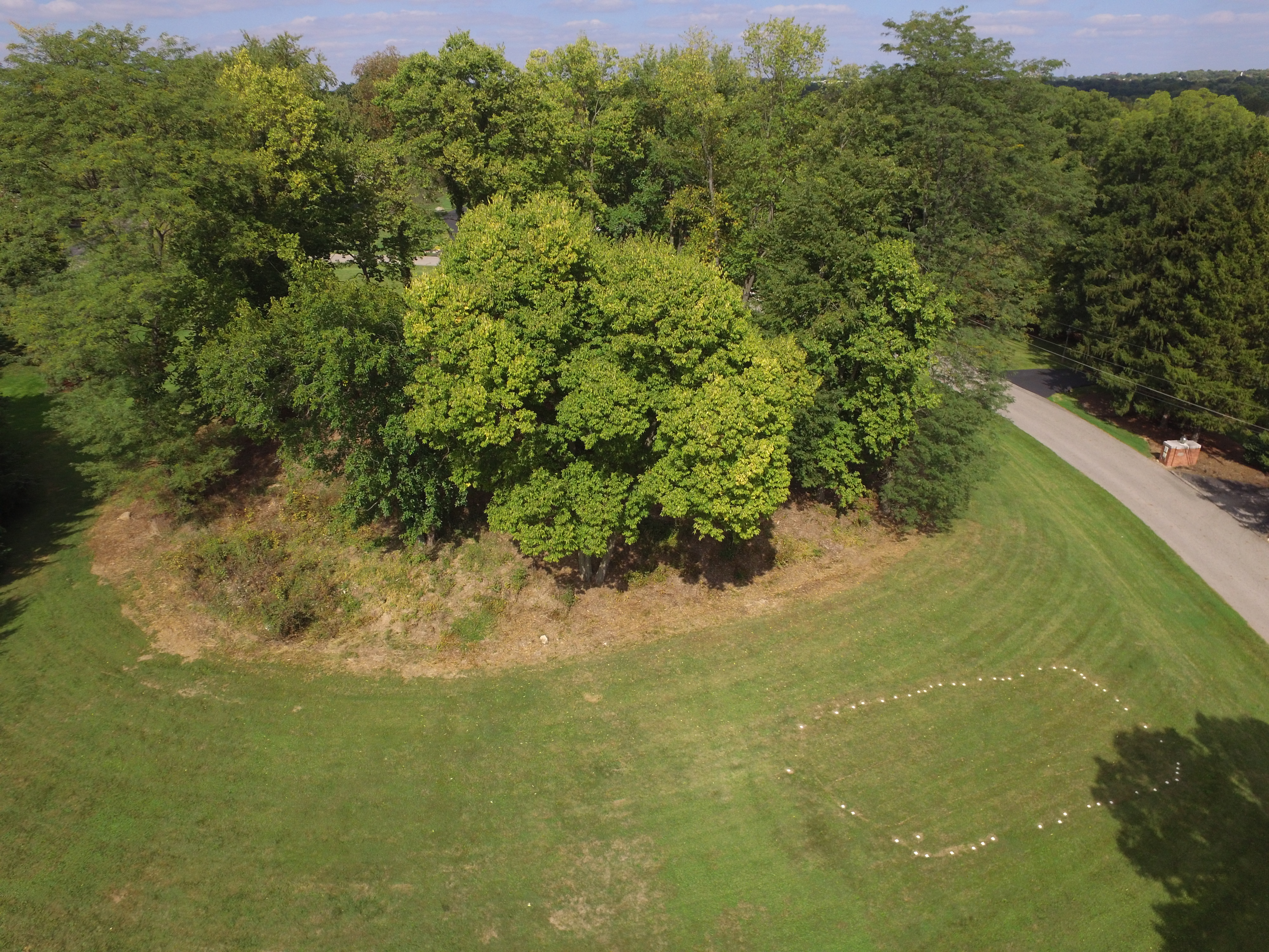 View of Jeffers Mound in Worthington, Ohio. The footprint of a Hopewell pole house can be seen in the lower-right. Taken from the air with an unmanned aircraft system.